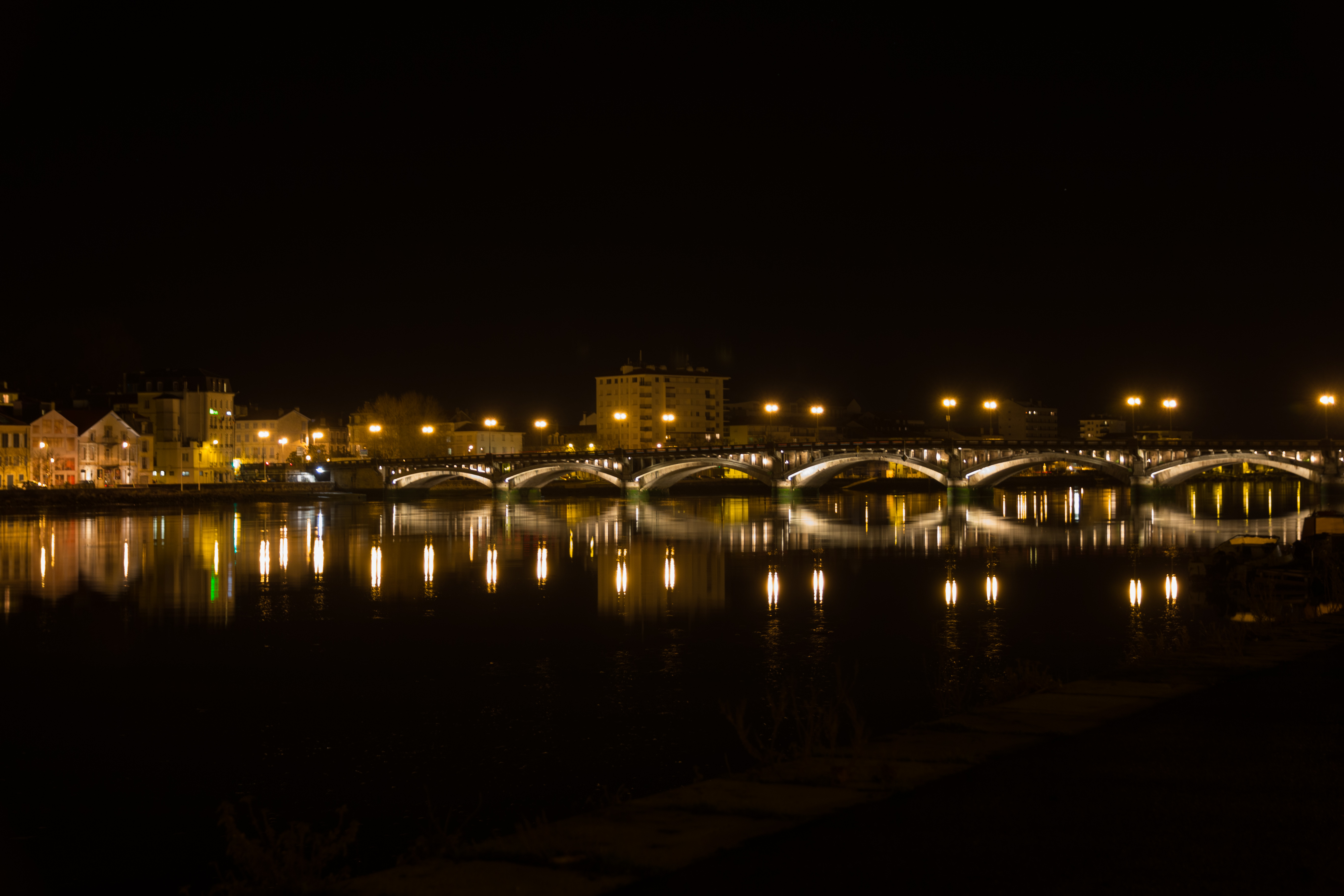 The bridge Holy Spirit, seen from to the dock of the Maréchal Leclerc's Avenue.